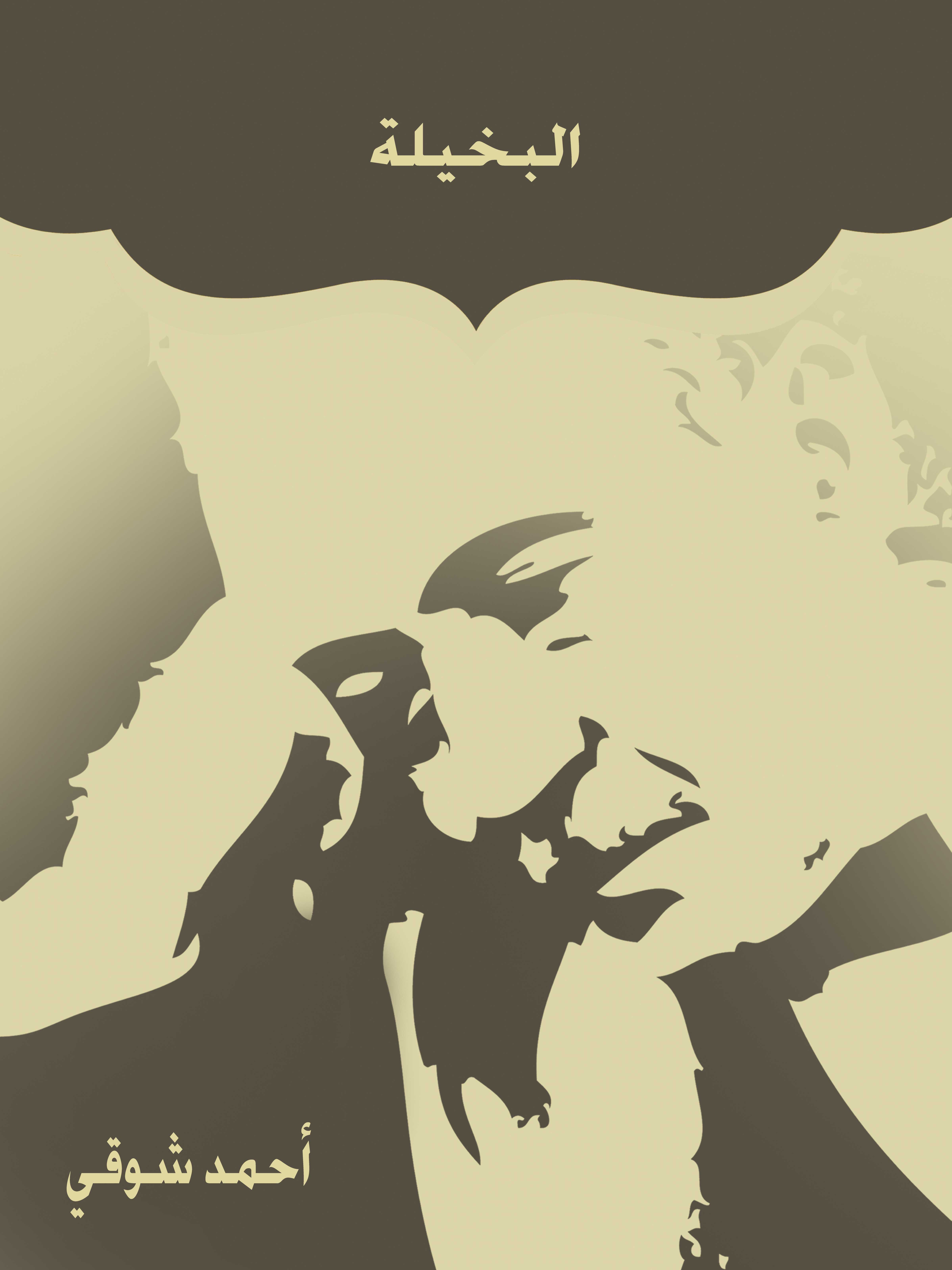 أحمد شوقي البخيلة